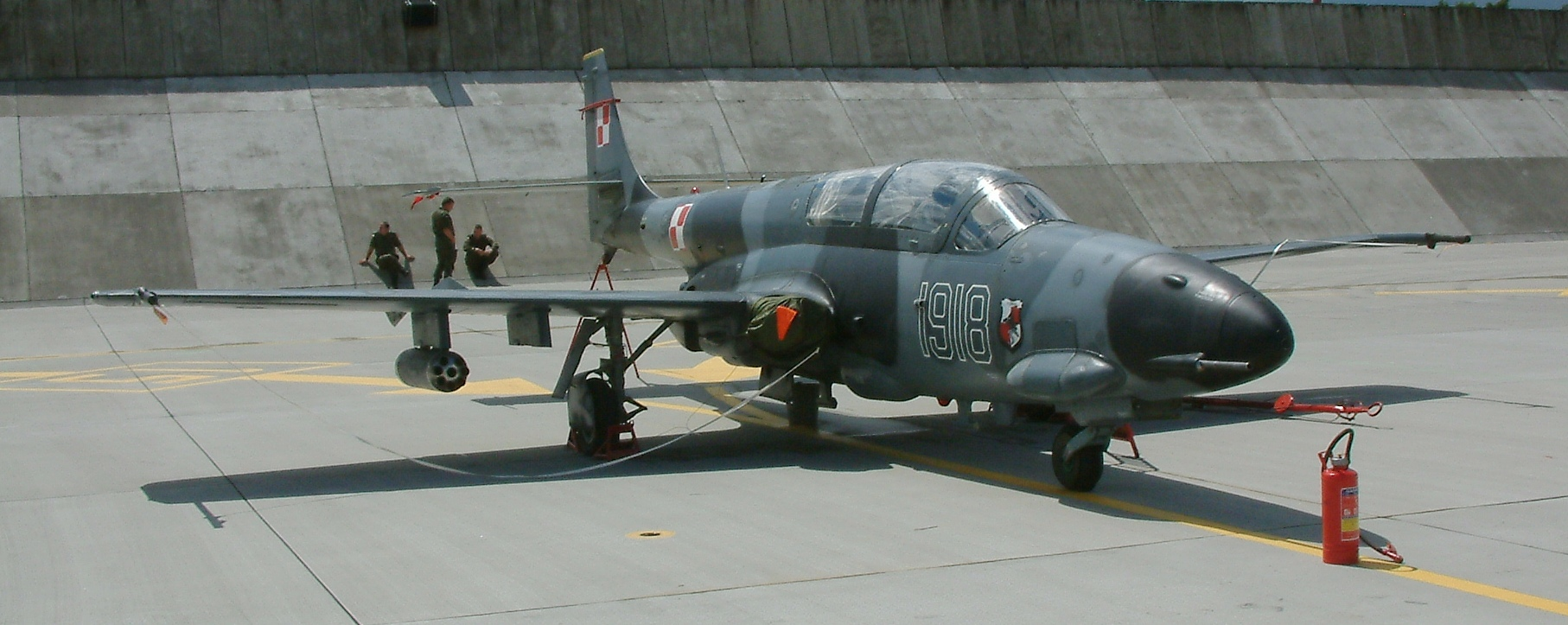 TS-11 Iskra R with markings of 3rd Tactical Sqn